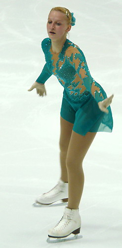 Nina Petushkova during the short programm at Cup of Russia 2007